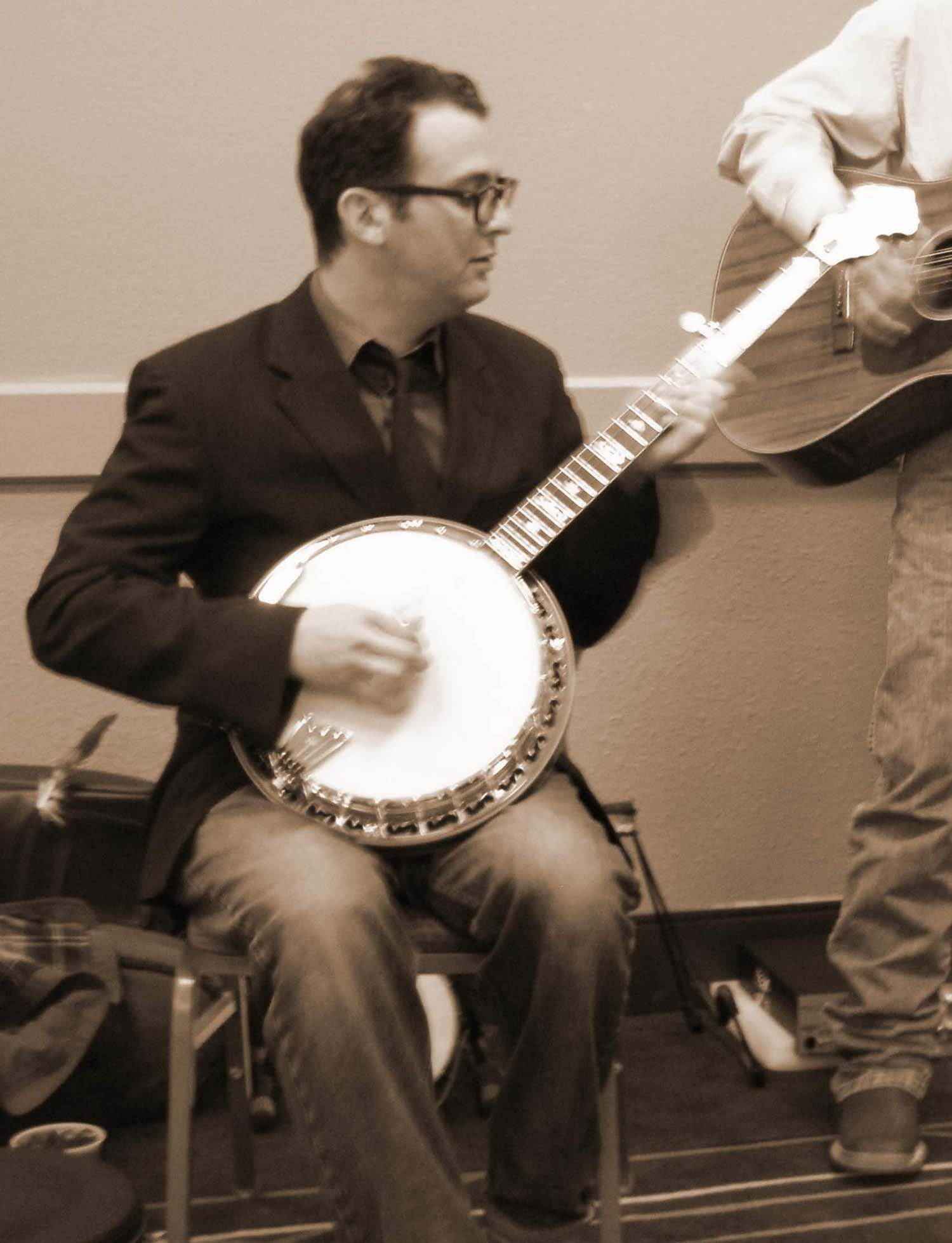 Josh Fox, the Academy Award-nominated filmmaker, plays his banjo at a jam session in Sheridan, Wyoming, USA, on November 5, 2011. This photo was taken during the 39th Annual Meeting of the Powder River Basin Resource Council, held at the Holiday Inn in Sheridan, Wyoming, USA. Josh Fox was the featured speaker.